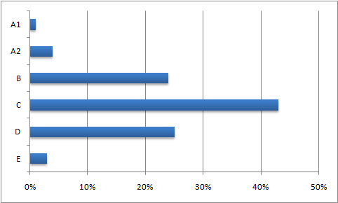 Graph showing the inequality of social classes in Brazil in% (percent)